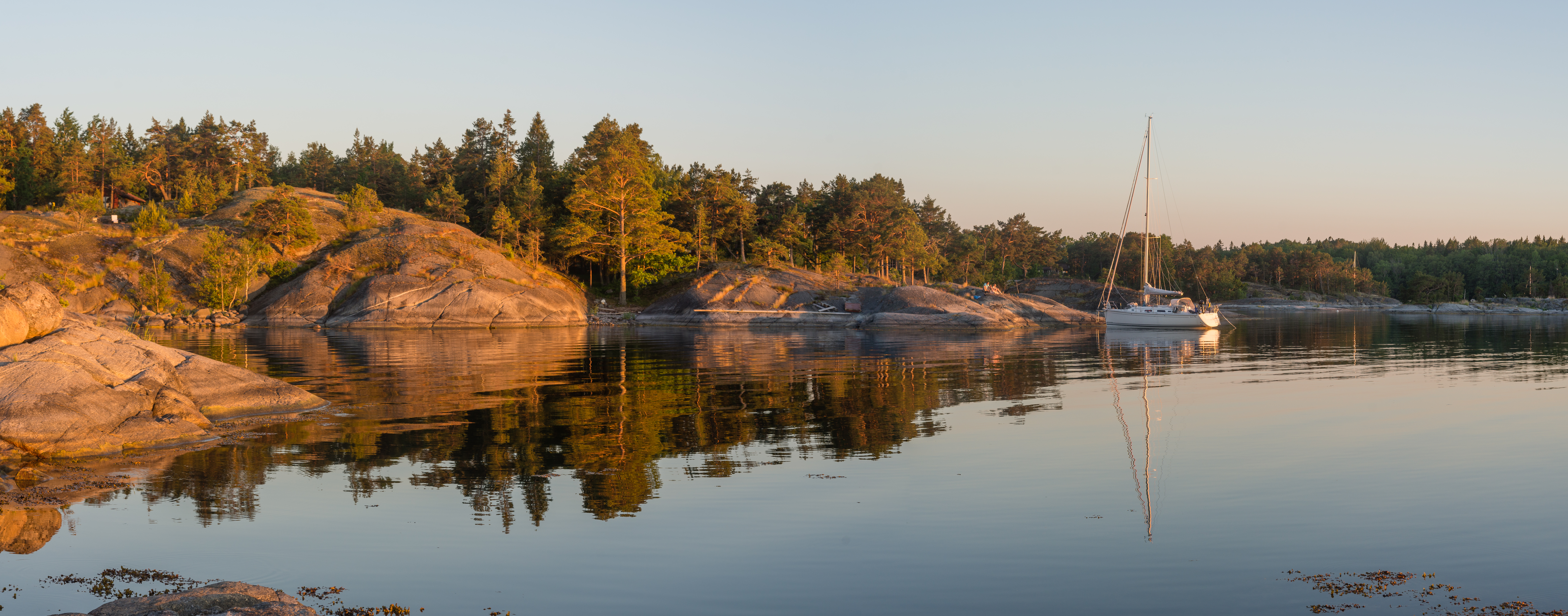 Landscape on the island Södermöja in Stockholm archipelago.